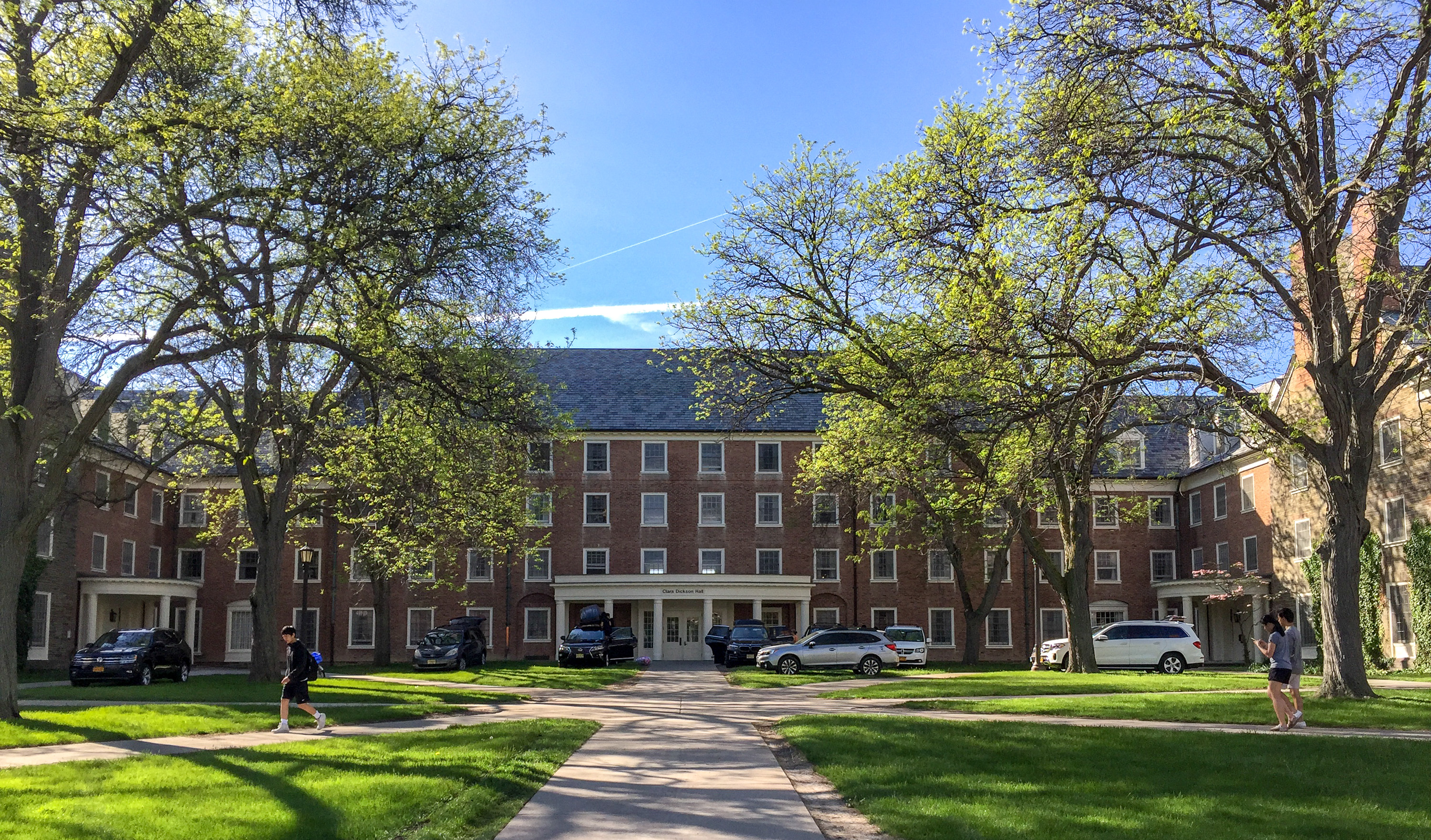 Clara Dickson Hall, Cornell University, Ithaca, NY